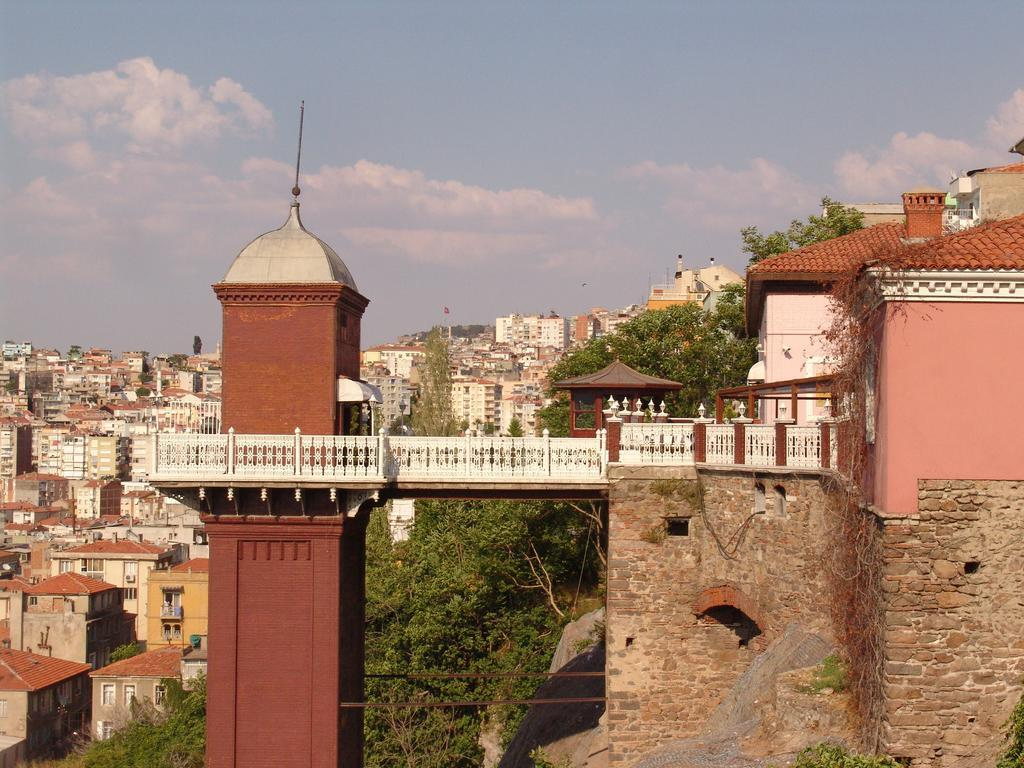 A historic elevator named as Asansör, located at Mithatpaşa, İzmir, TurkeyPazar Macerası